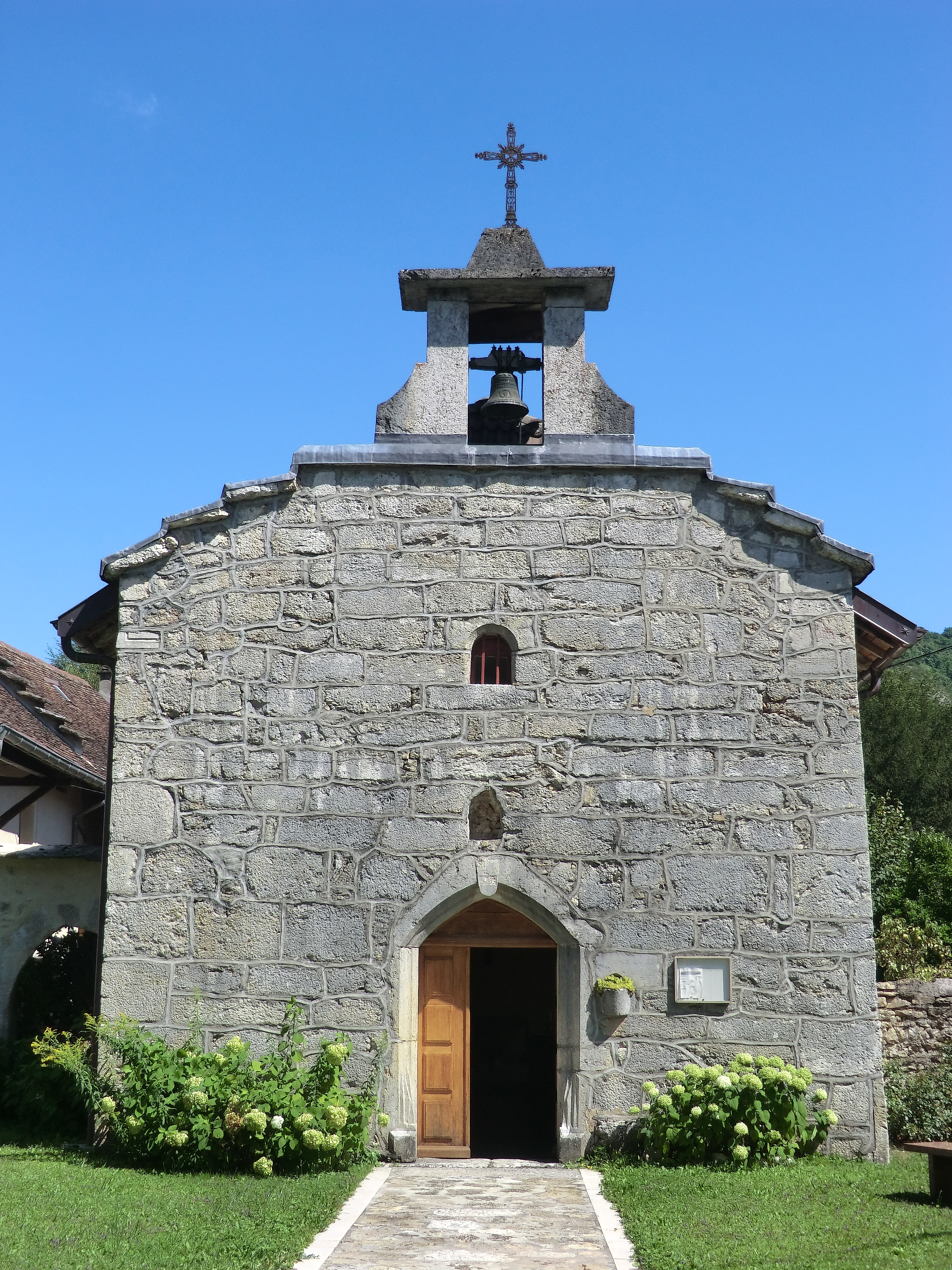 Saint-George chapel of Pugieu (Ain, France).